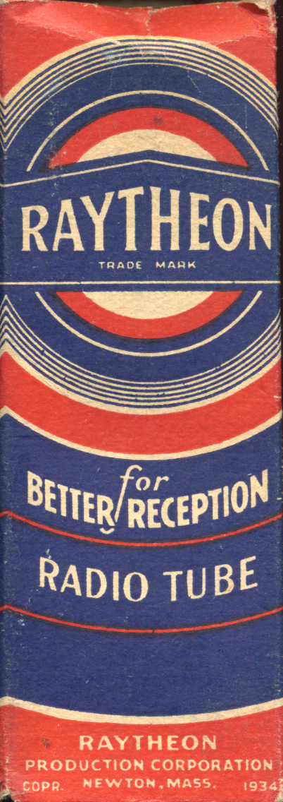 This is a photo of a Box from a ratheon tube. The tube box was made in 1934. It was scanned by me and I hereby release any interest I have under GFDL. Any rights still held by raytheon would be under "fair use" when this is used to Illustrate that they were a major tube maker.